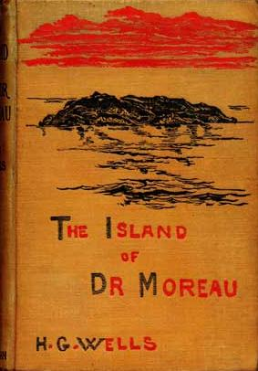 Cover to the first edition (in London by Heinemann in 1896) cover of The Island of Doctor Moreau by H. G. Wells.